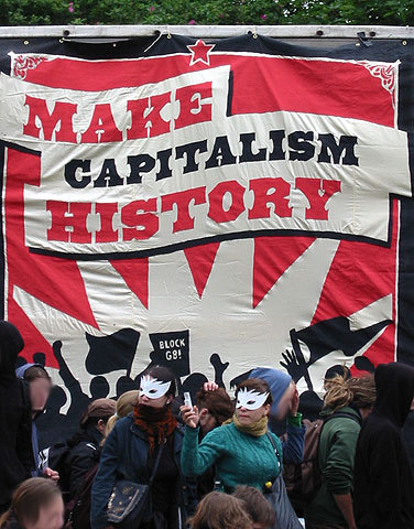 Demonstrations against the G8 summit, Rostock, Germany, 2007: "Make capitalism history" block (1)